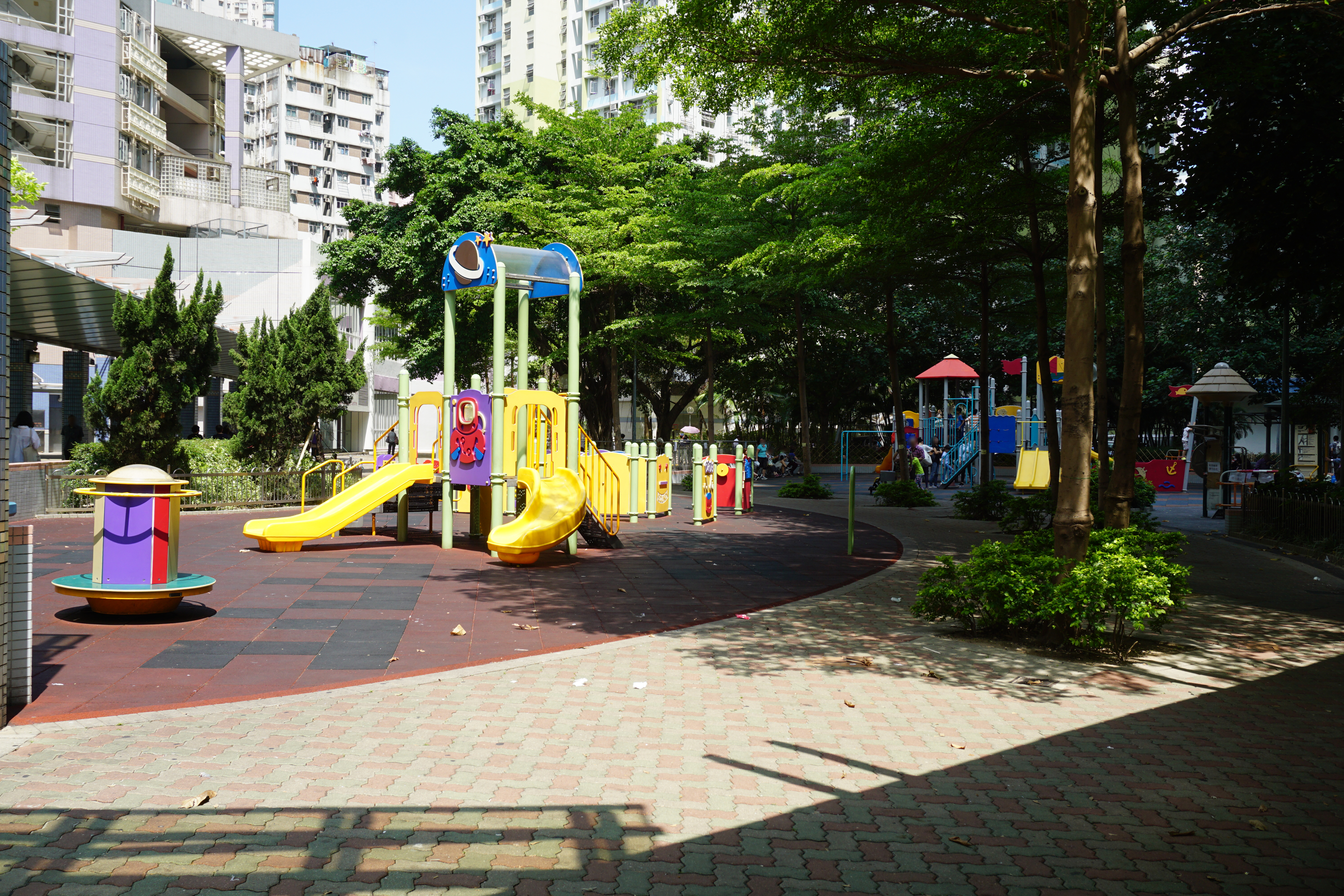 Un Chau Estate in Cheung Sha Wan, Hong Kong.